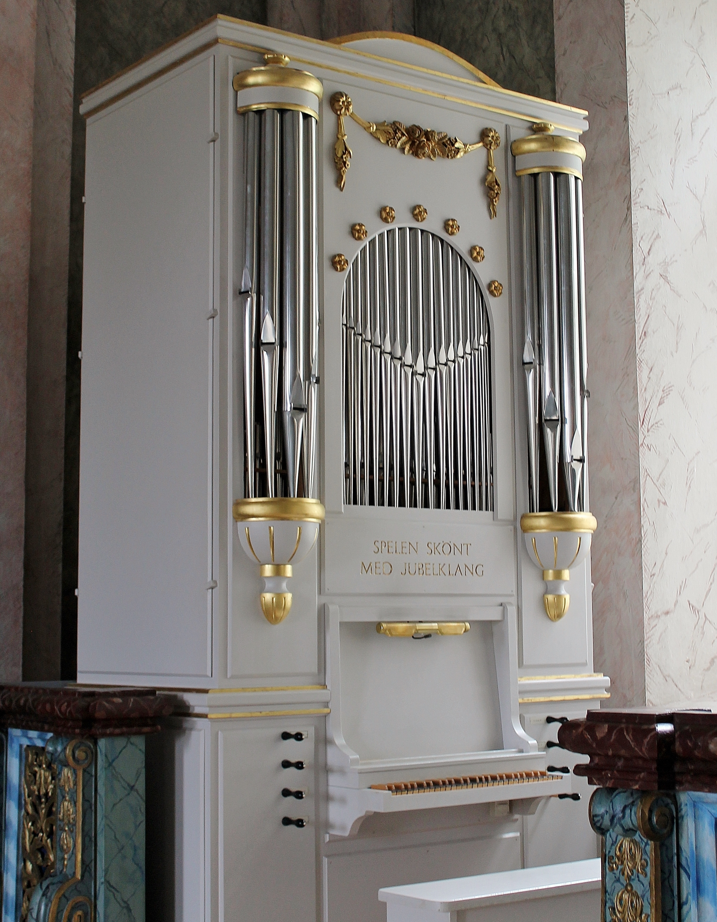 Ålem Church.Organ built in 1984 by S. Fondell and Lars Svensson.